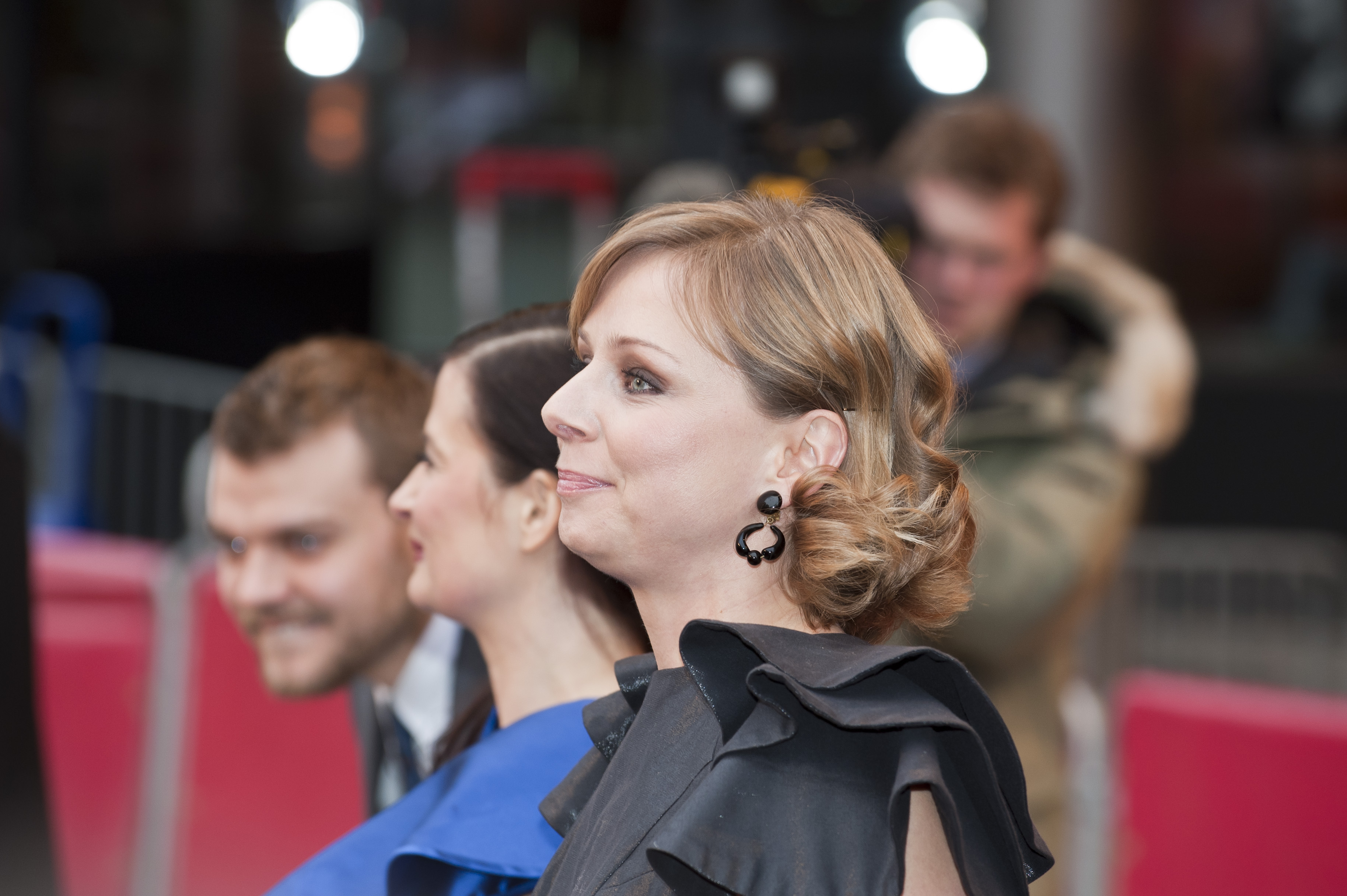 L-R: Johan Philip Asbæk, Pernille Fischer Christensen, Lene Maria Christensen; Premiere of the Danish movie "EN FAMILIE" (A Family) at the Berlinae Palast February 19th, 2010